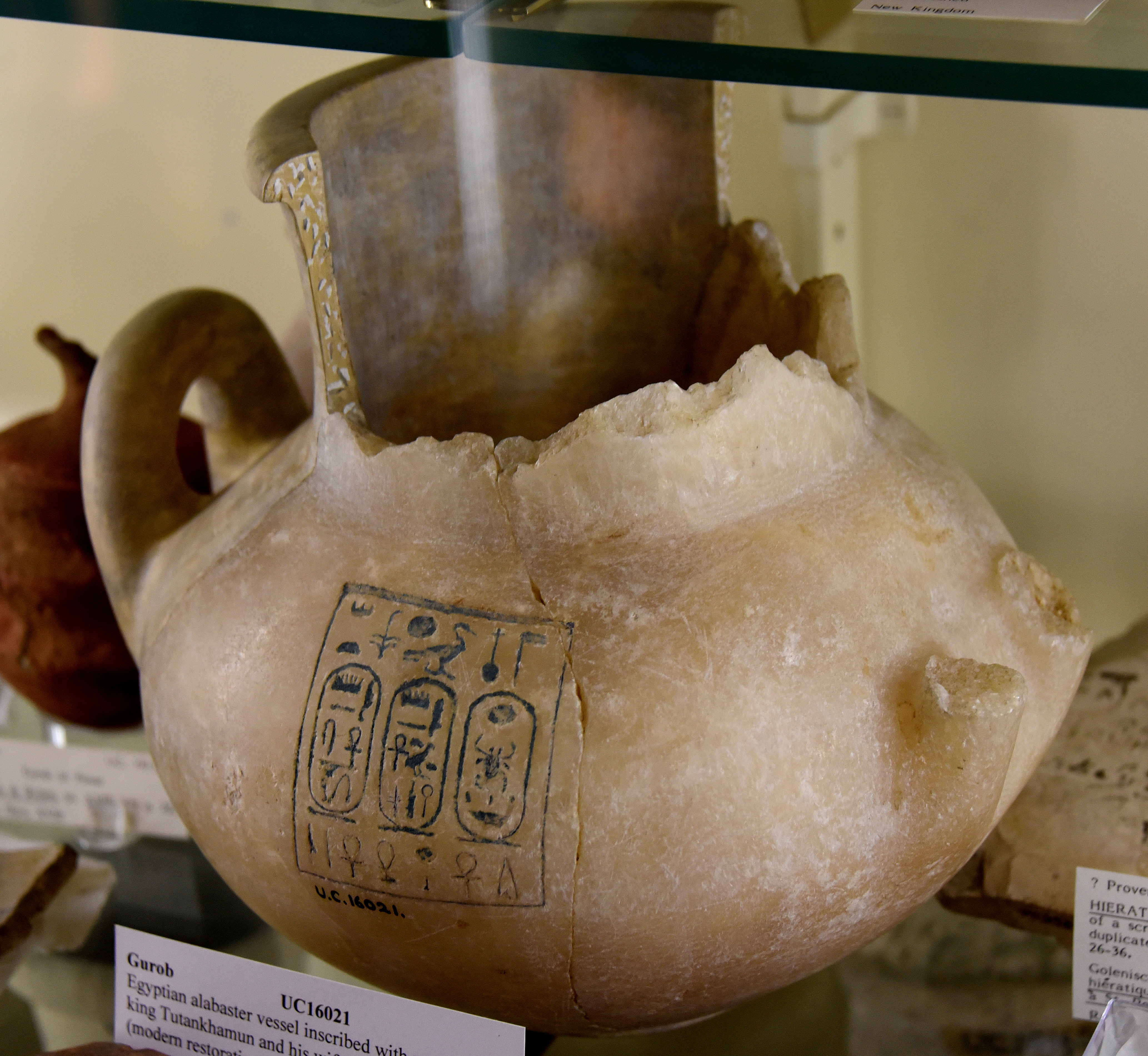 Partially restored alabaster jar with 2 handles. It bears the cartouches of pharaoh Tutankhamen and Queen Ankhesenamun. 18th Dynasty. From Gurob, Fayum, Egypt. The Petrie Museum of Egyptian Archaeology, London. With thanks to the Petrie Museum of Egyptian Archaeology, UCL.